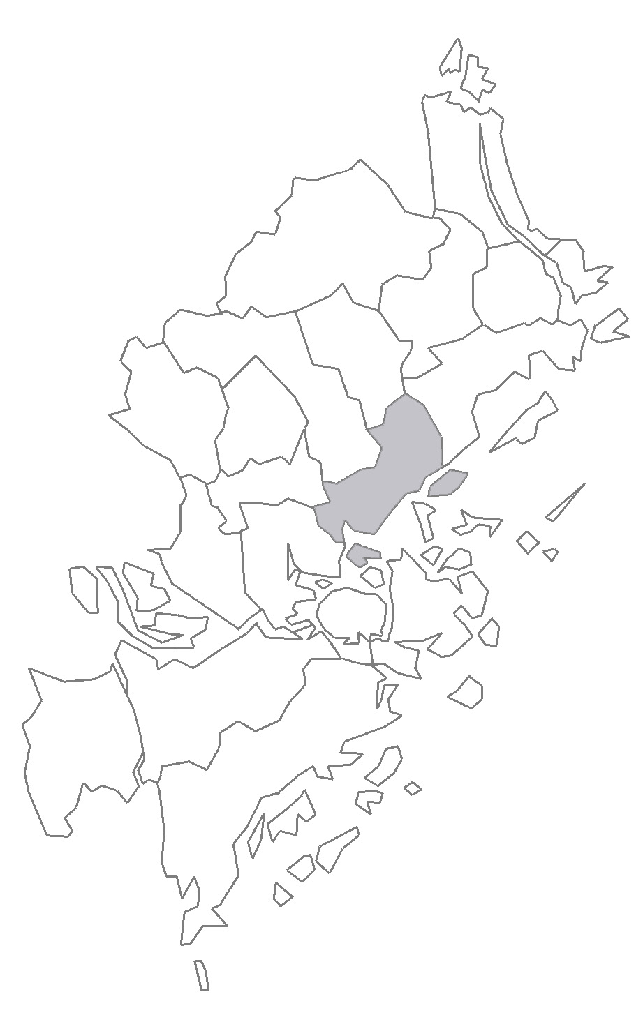 Map describing the location of Åker Ship District in Stockholm County, Sween.